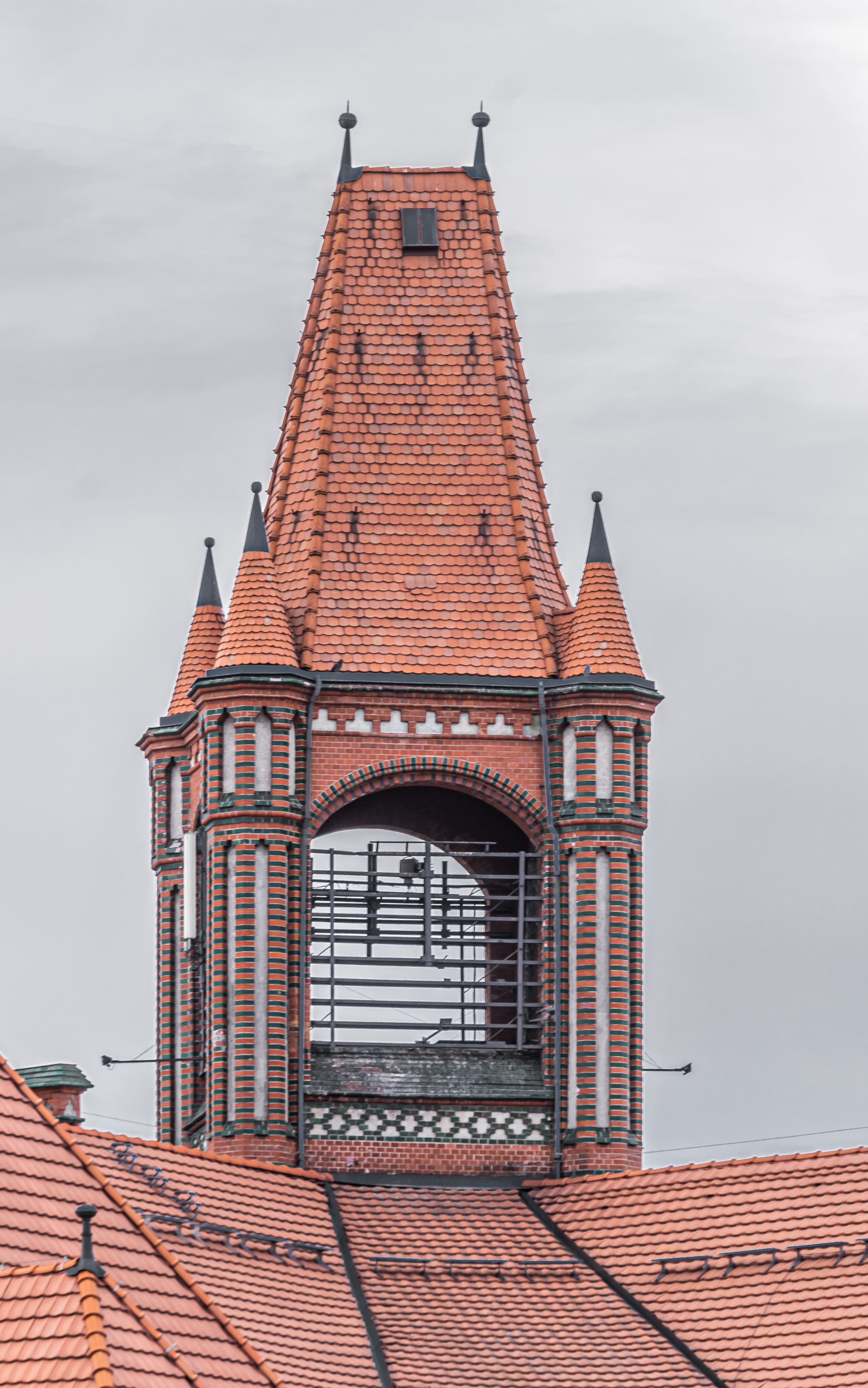 Tower of the Main Post Office in Bydgoszcz, Kuyavian-Pomeranian Voivodeship, Poland